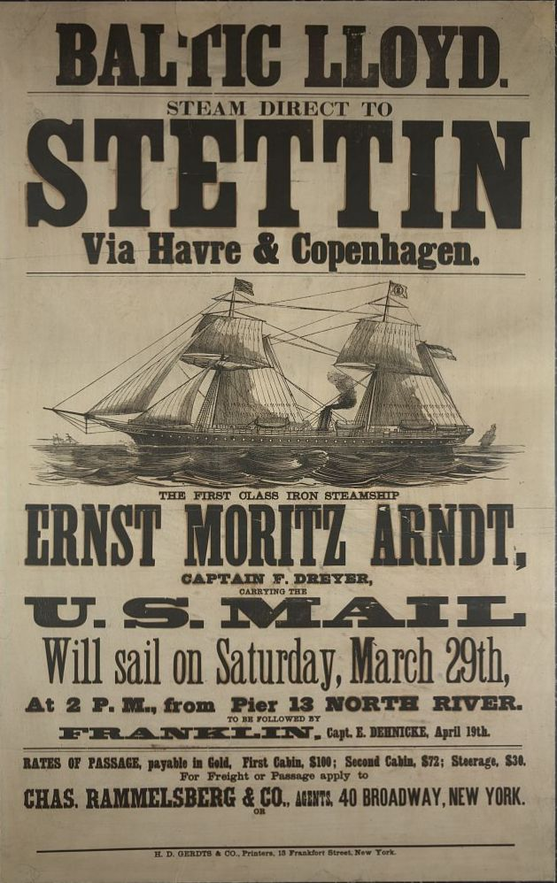 Advertising Poster for the New York City-Stettin Passages of Ernst Moritz Arndt of March 29, 1873 and Franklin on April 19, 1873